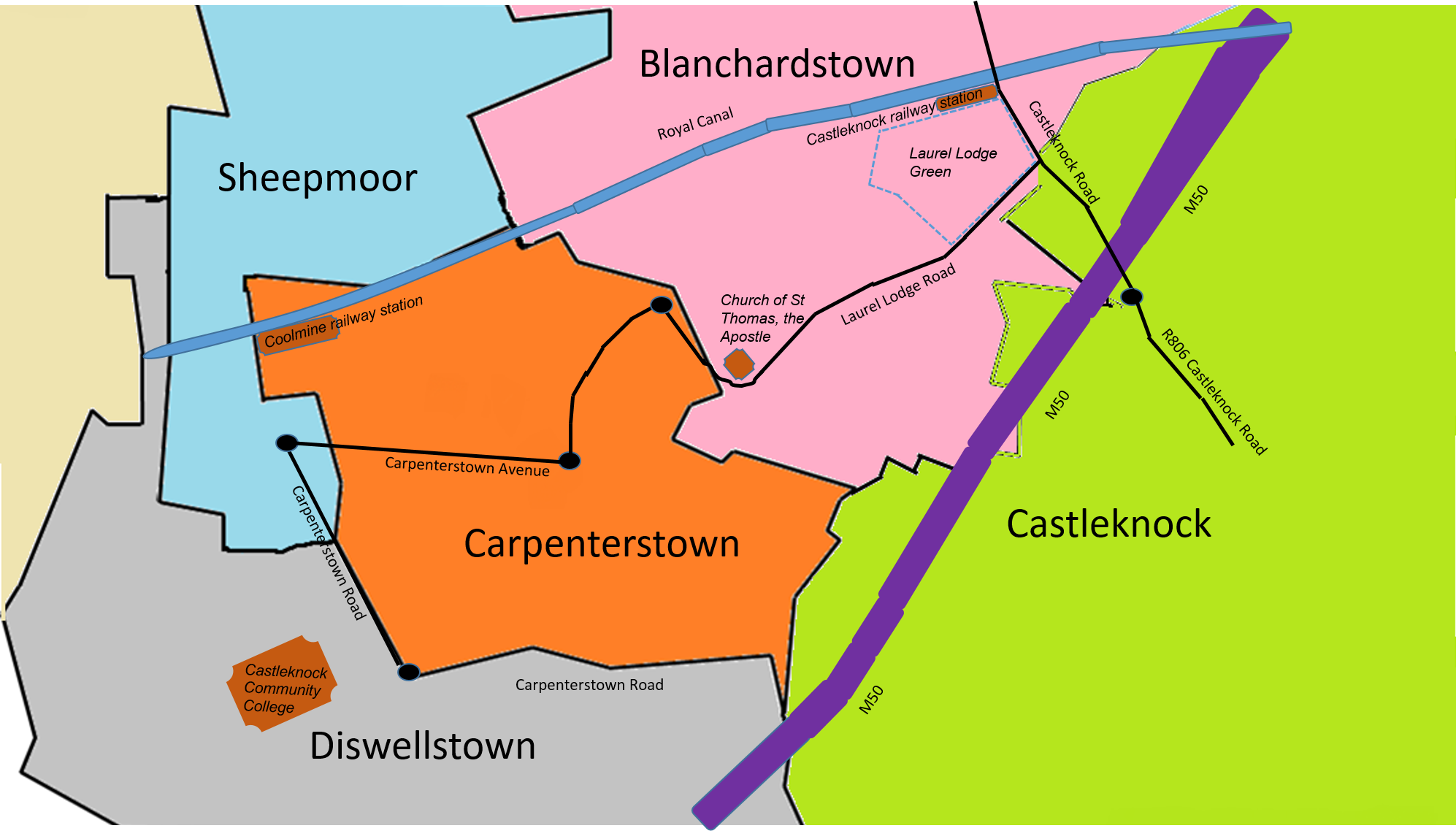 Outline map of the parish of St Thomas, Apostle showing the constituent townlands and principle roads and facilities. The parish contains: all of the townland of Carperterstown; that part of Sheepmoor lying south of the Royal Canal; that part of Blanchardstown lying south of the Royal Canal; that part of Castleknock lying west of the M50 motorway; a thin stretch of the northern part of Diswellstown above Castleknock Community College.